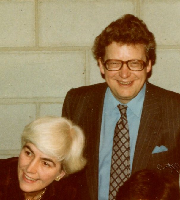 Architects Muriel and Peter Melvin in Spring 1982